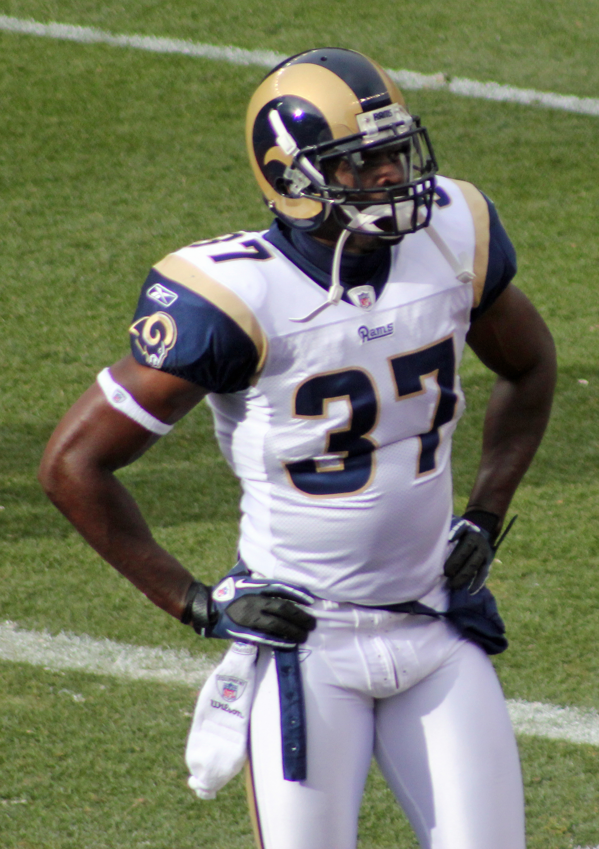 James Butler, a player on the Saint Louis Rams American football team.